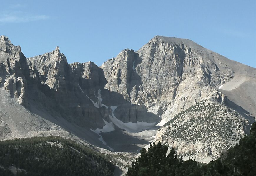 Wheeler Peak in the Snake Range of Nevada, looking southwest from the Maheur Viewpoint in Great Basin National Park.